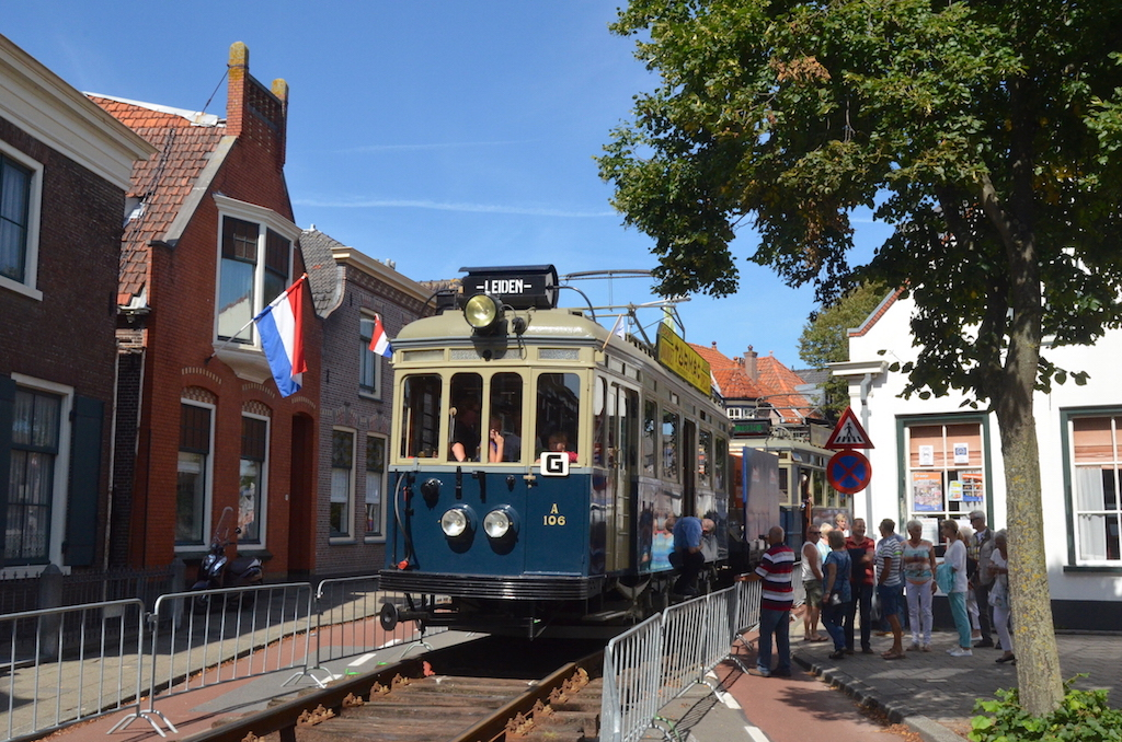 NZH-trams A106 and A327 reinstalled on temporary tracks in Katwijk at the Rijnstraat, where once they were in regular service.